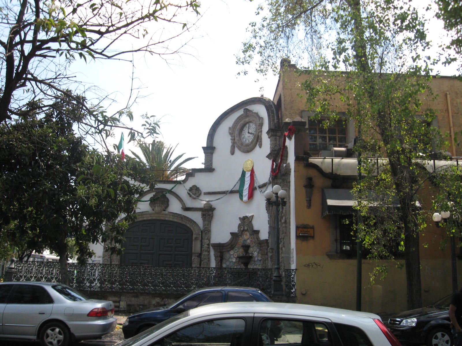 Main Entrance to the old Hacienda Tlalpan, located on Calzada de Tlalpan in the Tlalpan borough of Mexico City